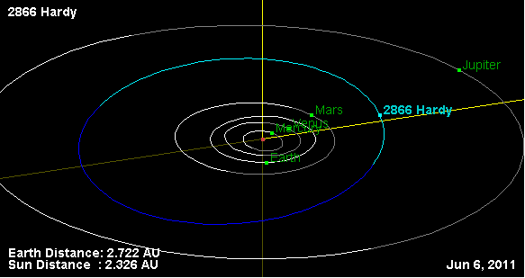 2866 Hardy orbit, and his position on 06 Jun 2011 (NASA Orbit Viewer applet)